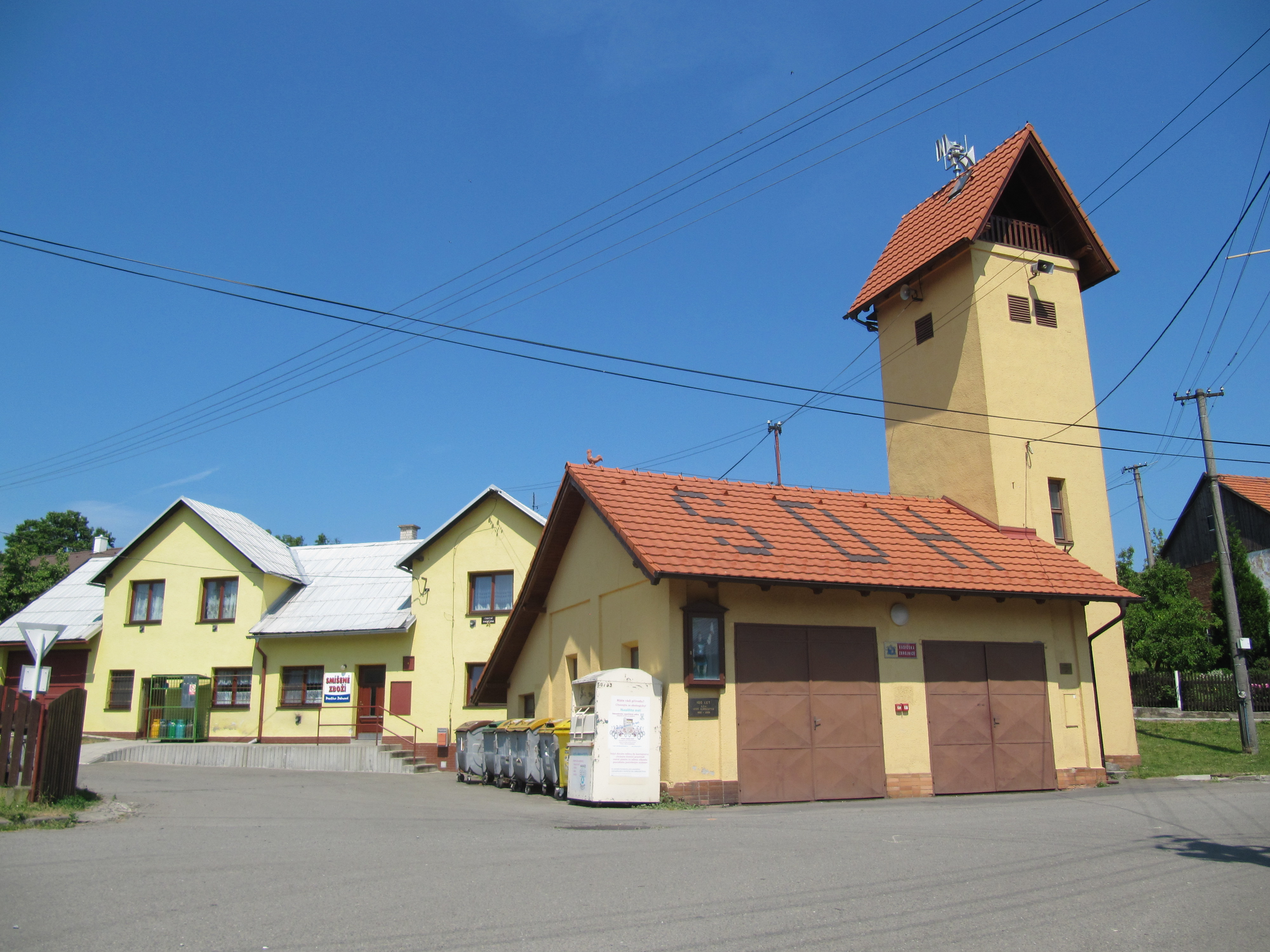 Březová, Opava District, Czech Republic, part Lesní Albrechtice.